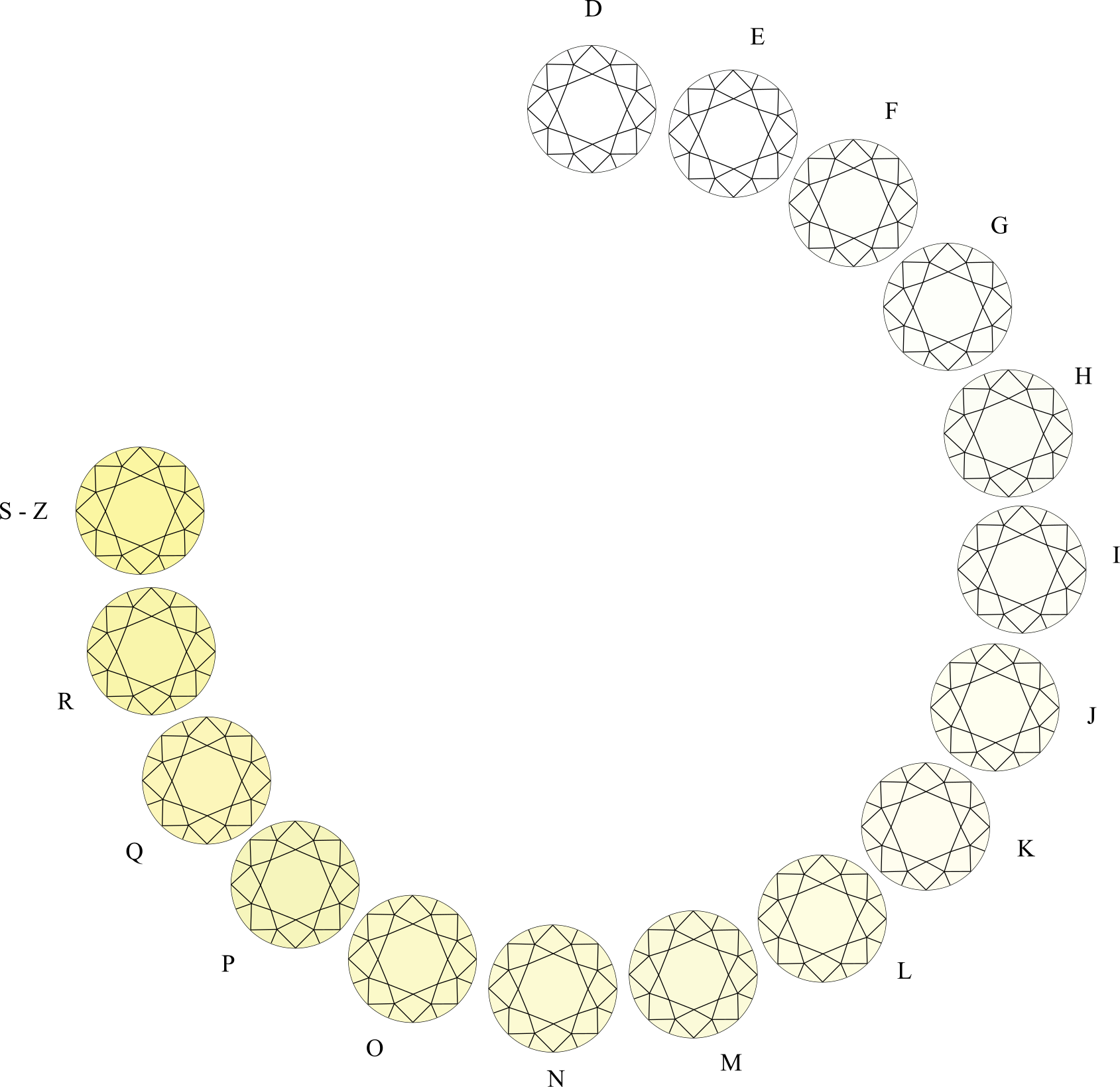 Gemmological Institute of America color scale for diamonds.